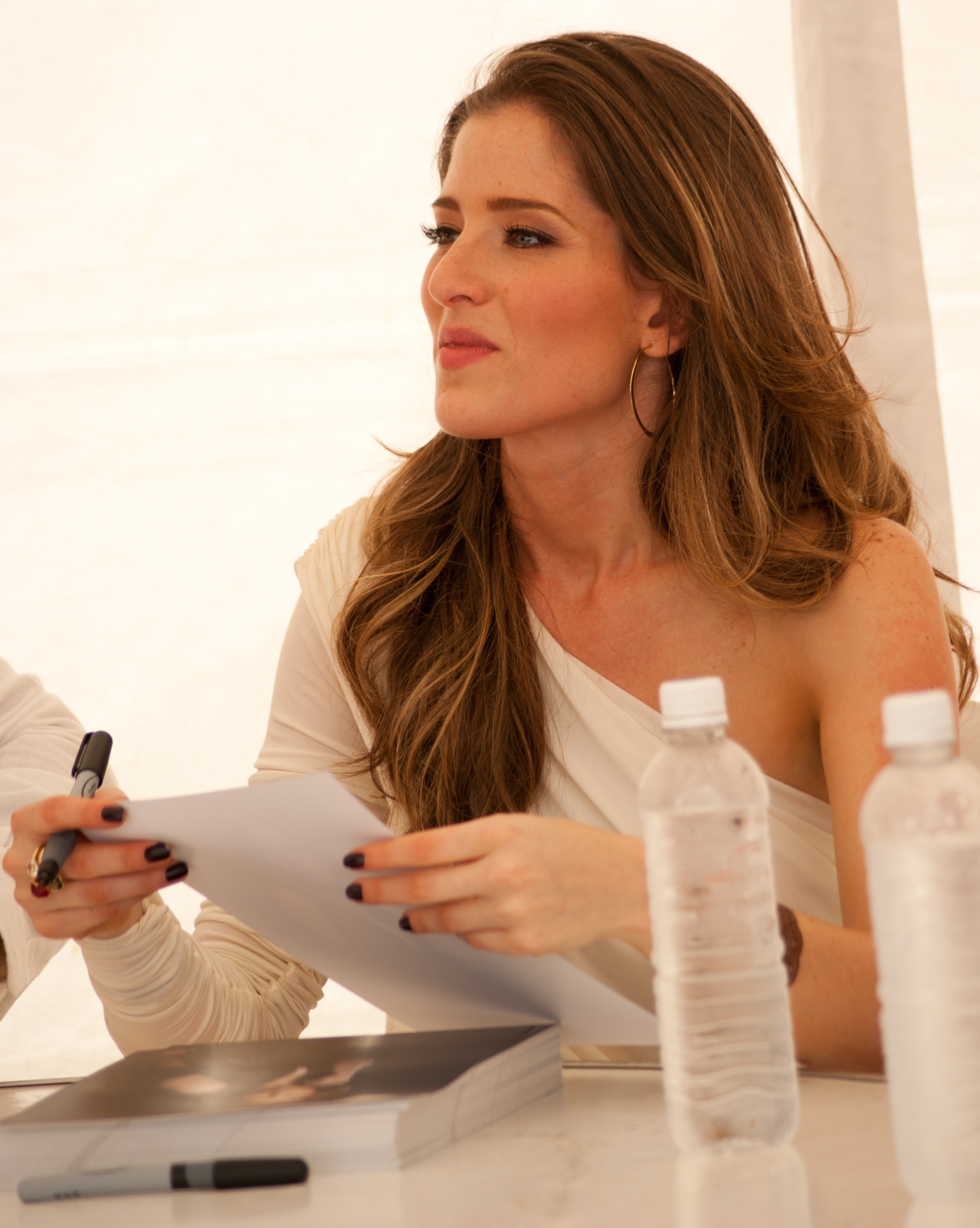 María Inés firmando autógrafos en Tuxpan, Ver.